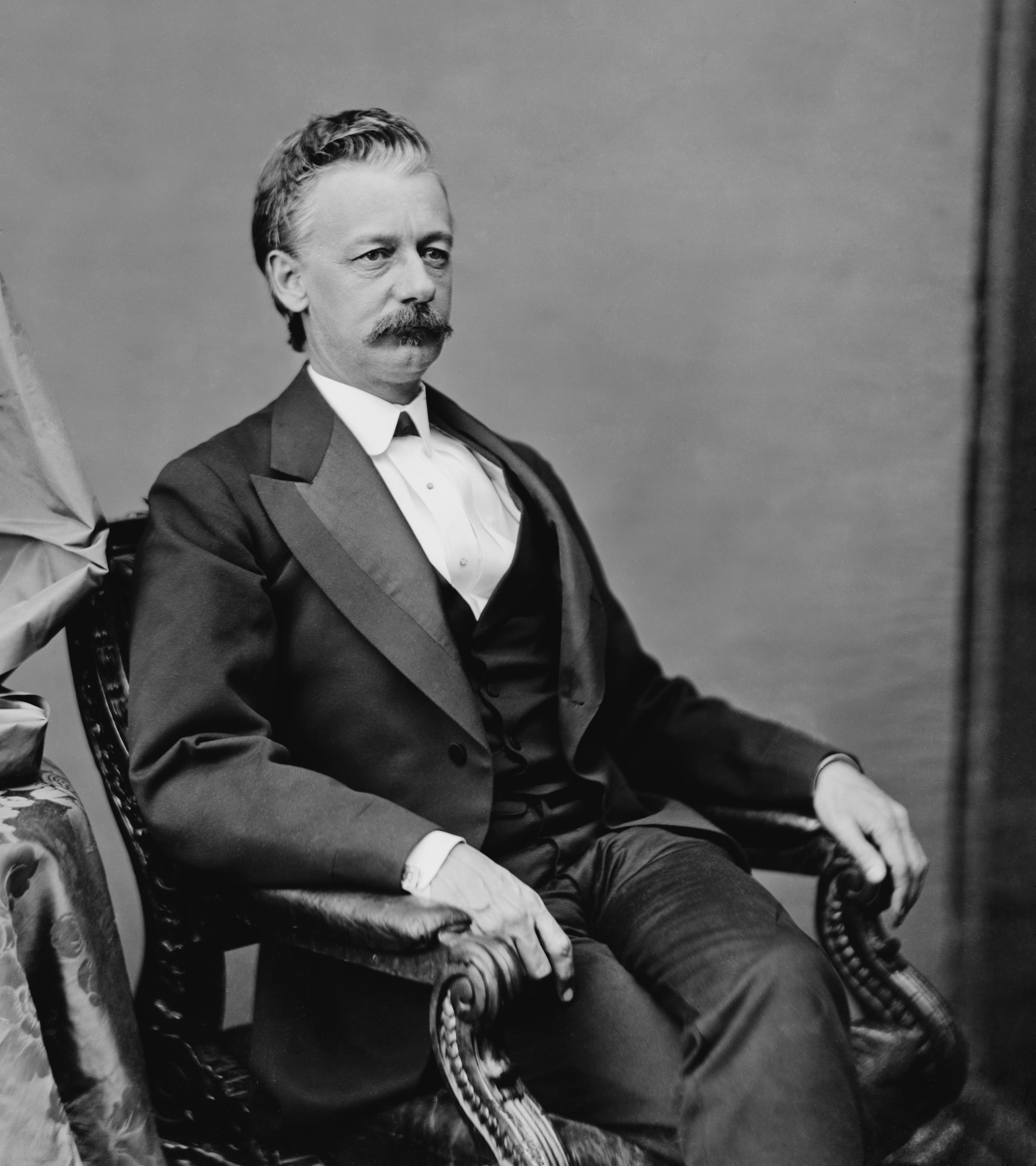 Henry Warner Slocum. Library of Congress description: "Hon. Henry Warner Slocum of N.Y."